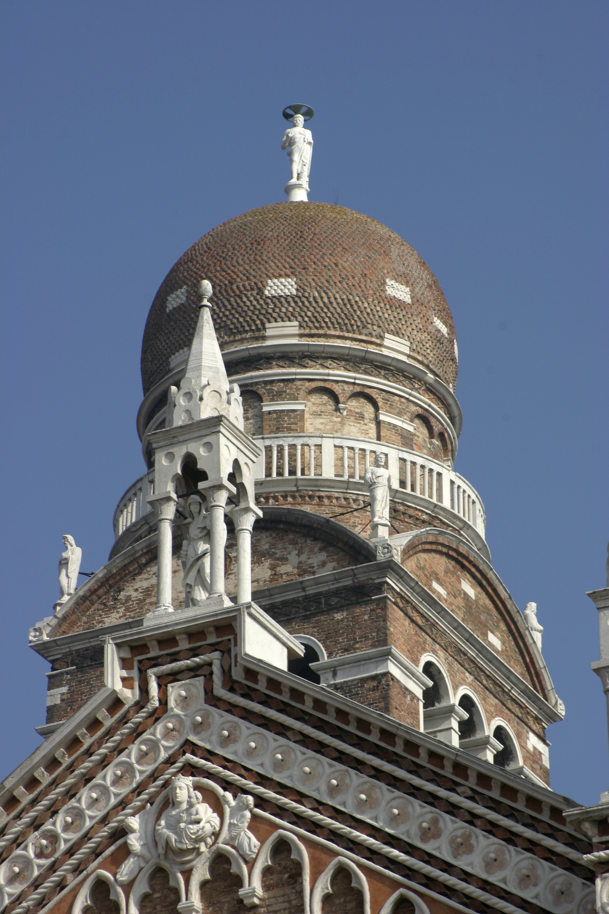 Venice – Church Madonna dell’Orto – Dom of the belltower